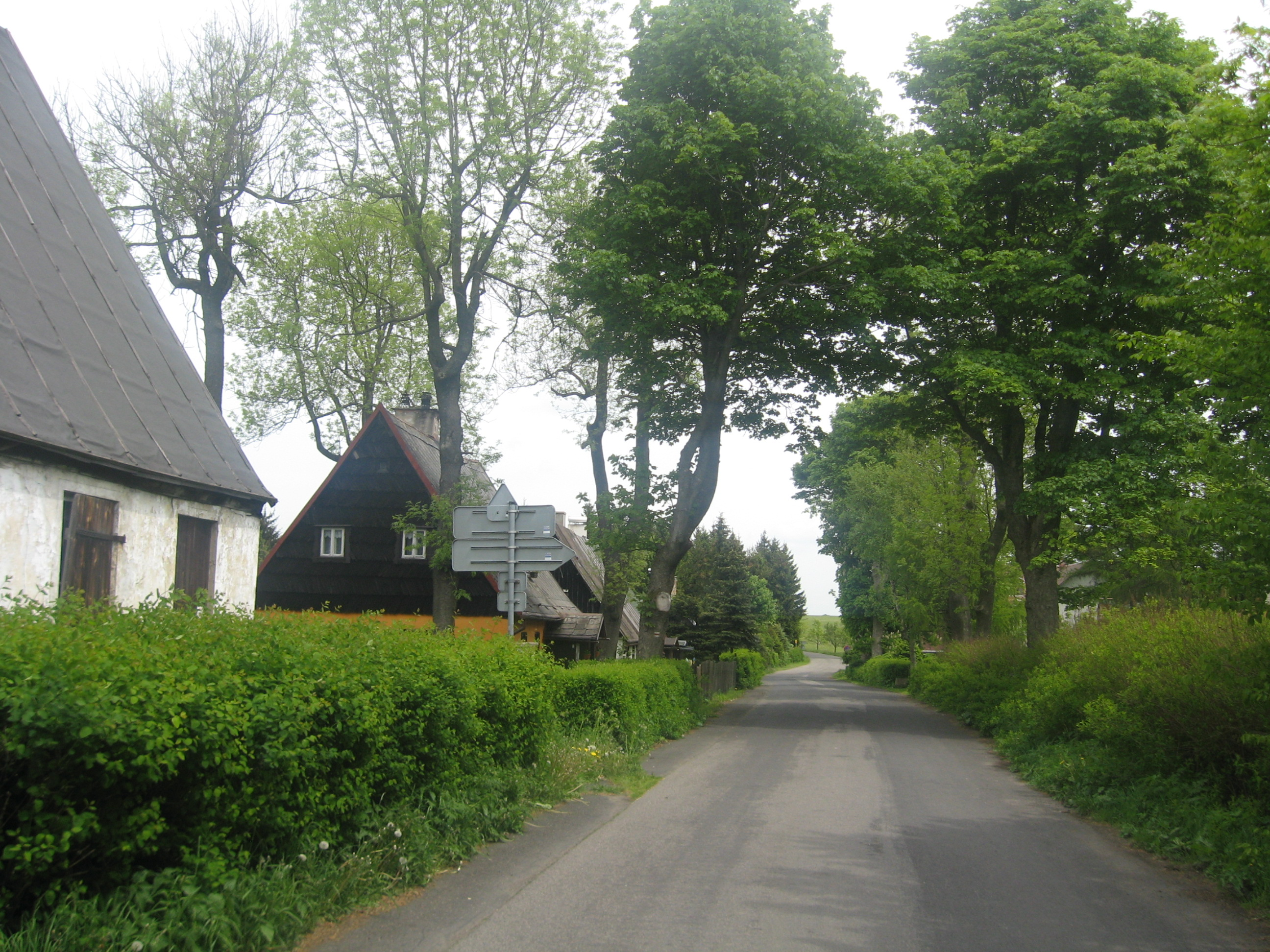 Main street in Adolfov